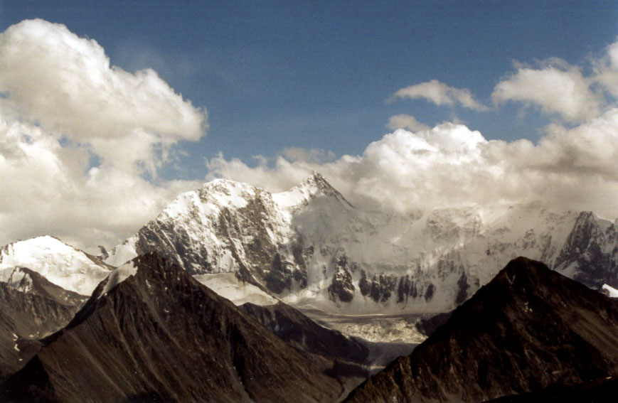 Belucha, View from North, Altay Mountains